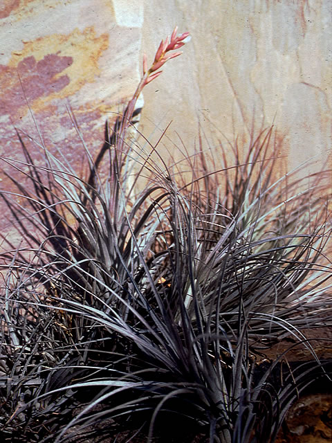 Tillandsia milagrensis in cultivation.